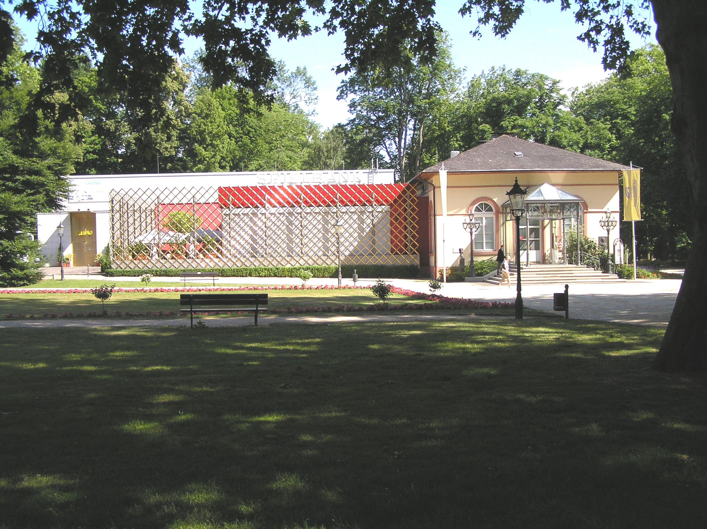 Casino Bad Homburg, Germany, from the front